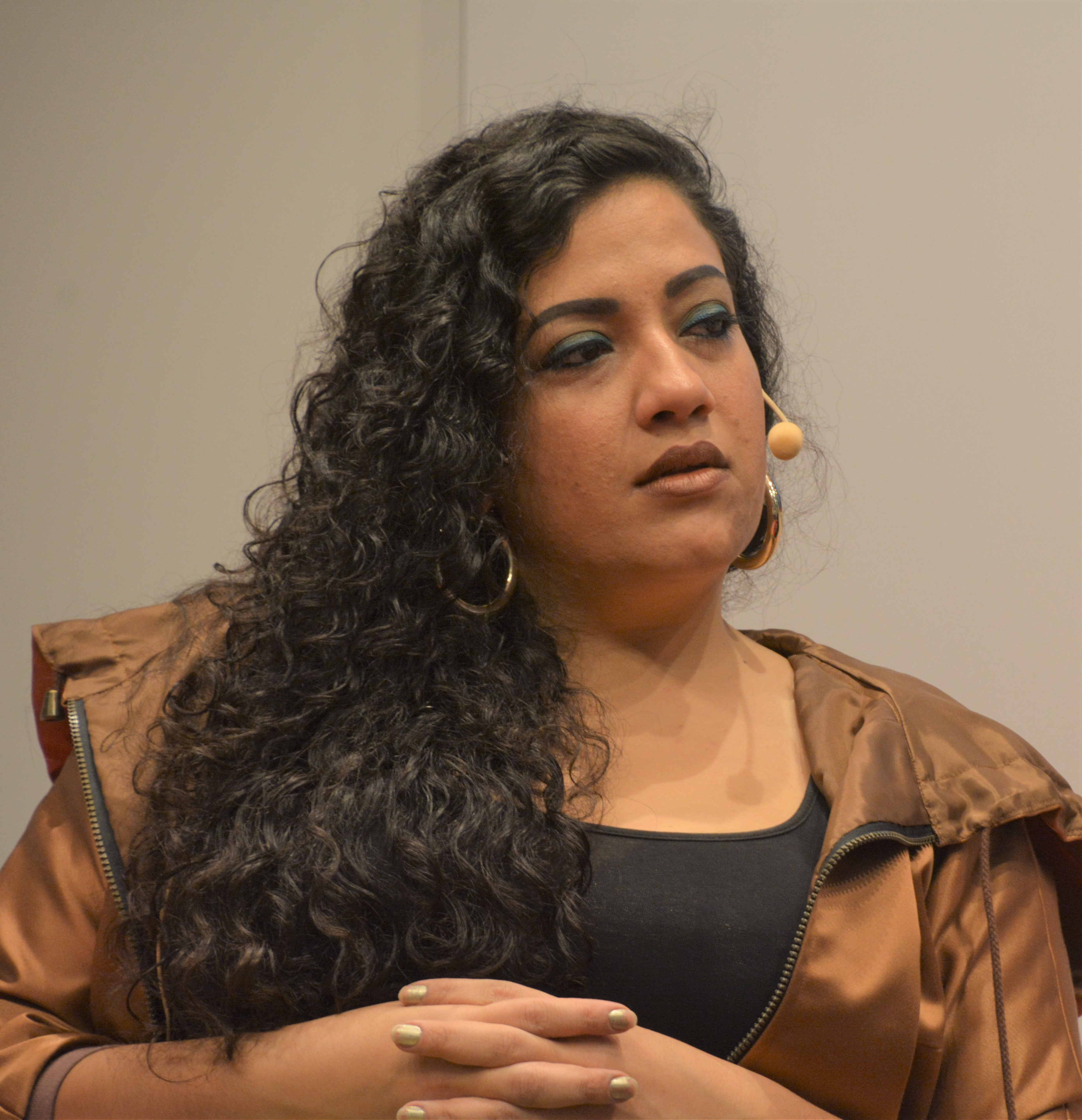 Athena Farrokhzad at Göteborg Book Fair 2019